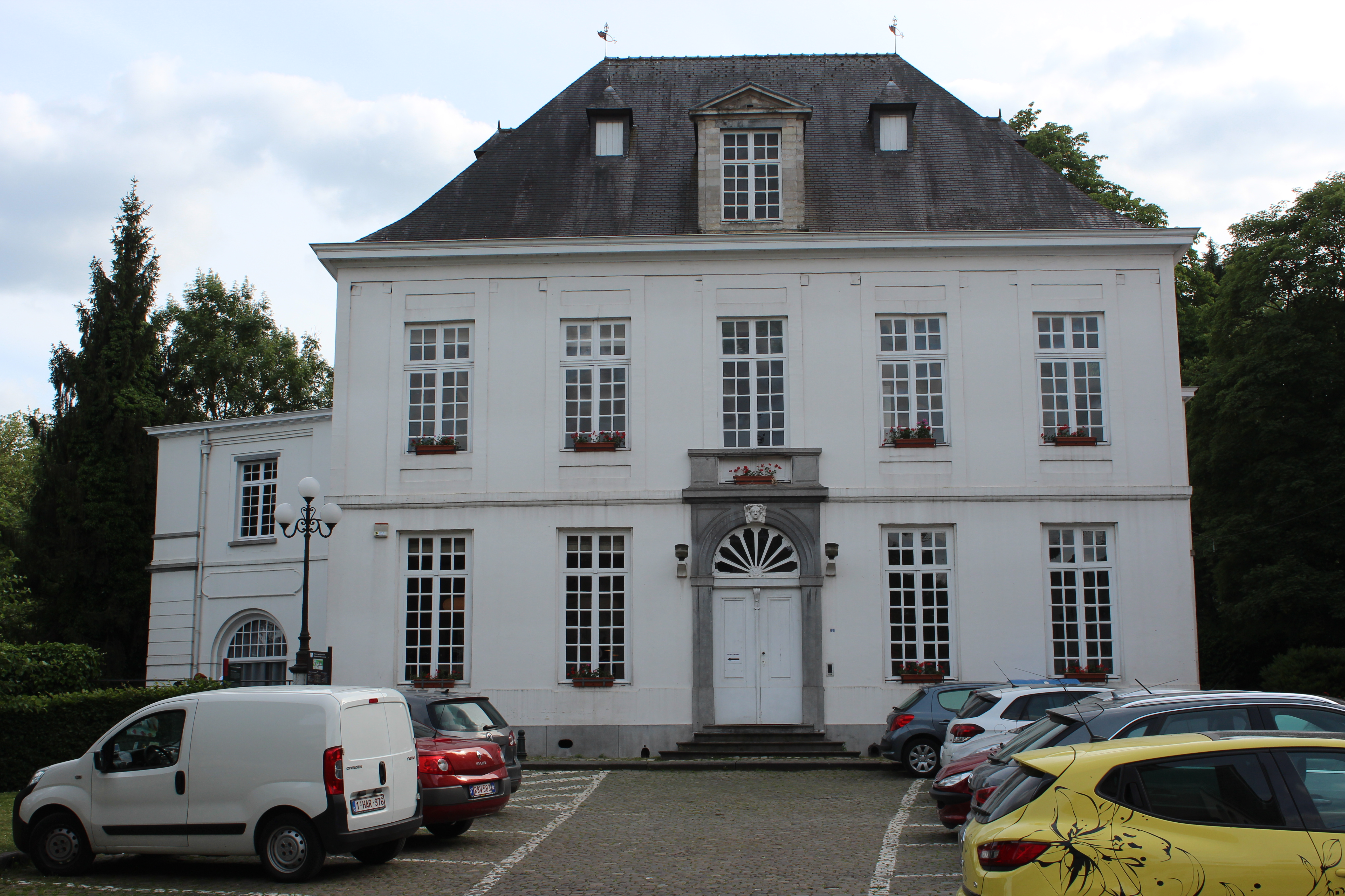 Maison haute - Hooge Huis in Watermael-Boitsfort / Watermaal-Bosvoorde.